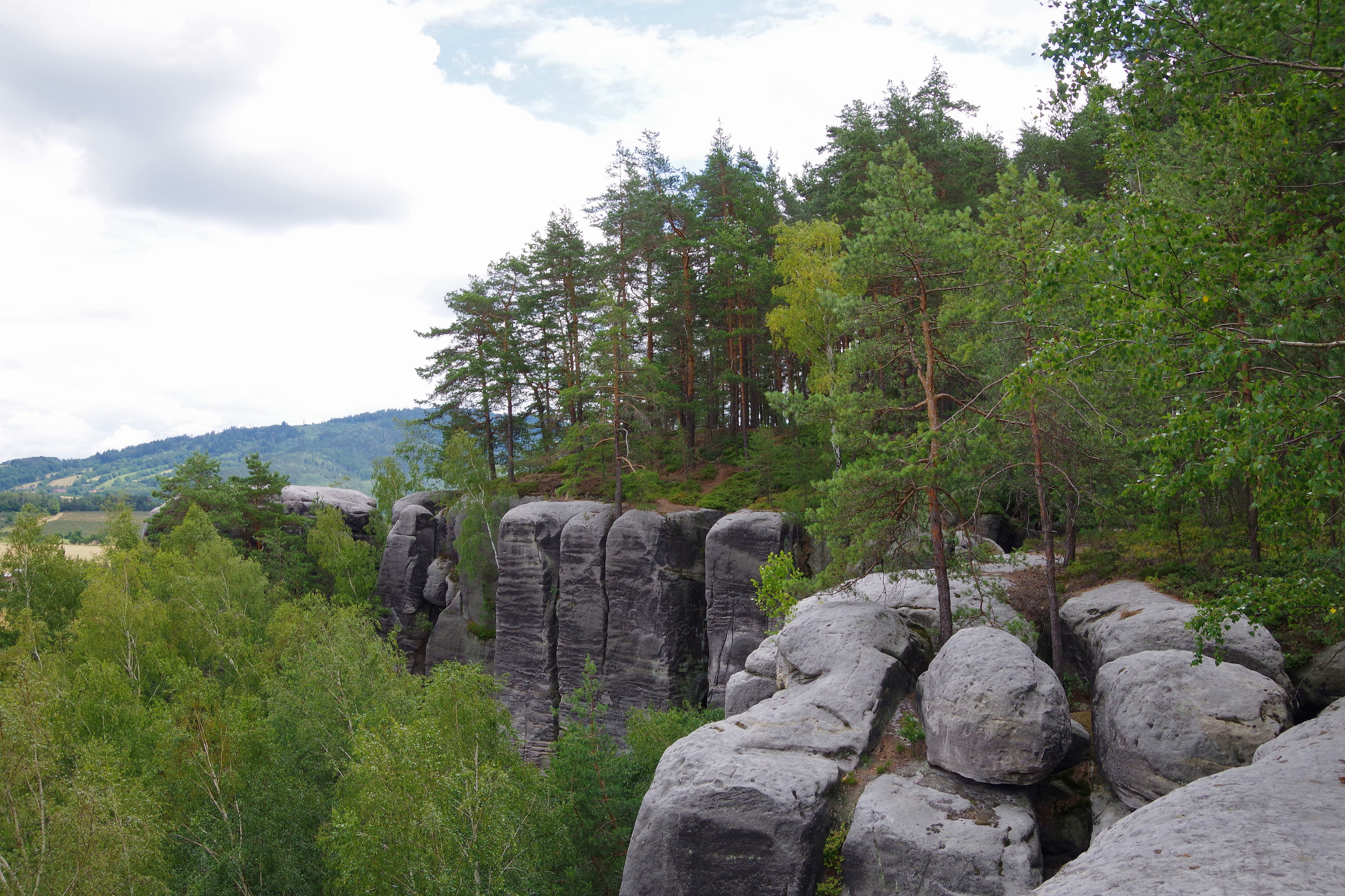 Betlemske skaly, rocks